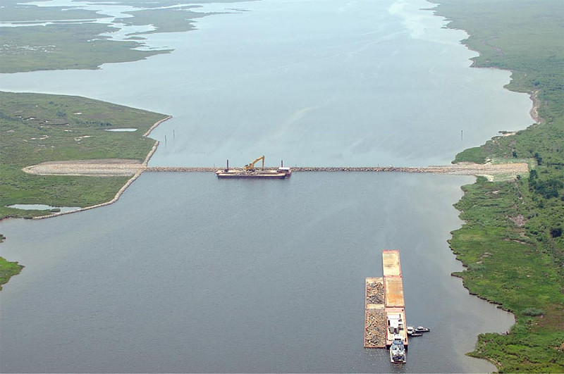 Construction of the MRGO rock closure structure near Bayou La Loutre, St. Bernard Parish, Louisiana.